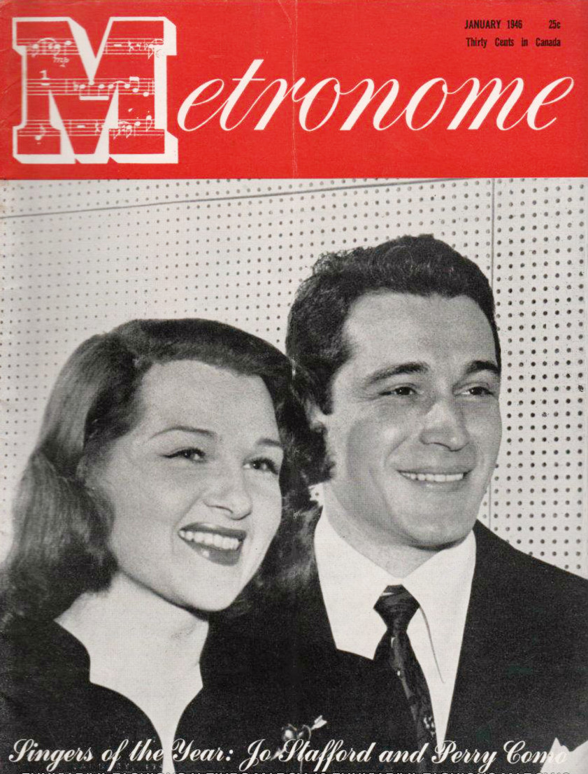 Cover of Metronome magazine for January 1946. Its readers' poll named Jo Stafford Female Singer of the Year and Perry Como Male Singer of the Year. They were both working on the radio program Chesterfield Supper Club at the time; the photo appears to have been taken at the NBC New York studios.